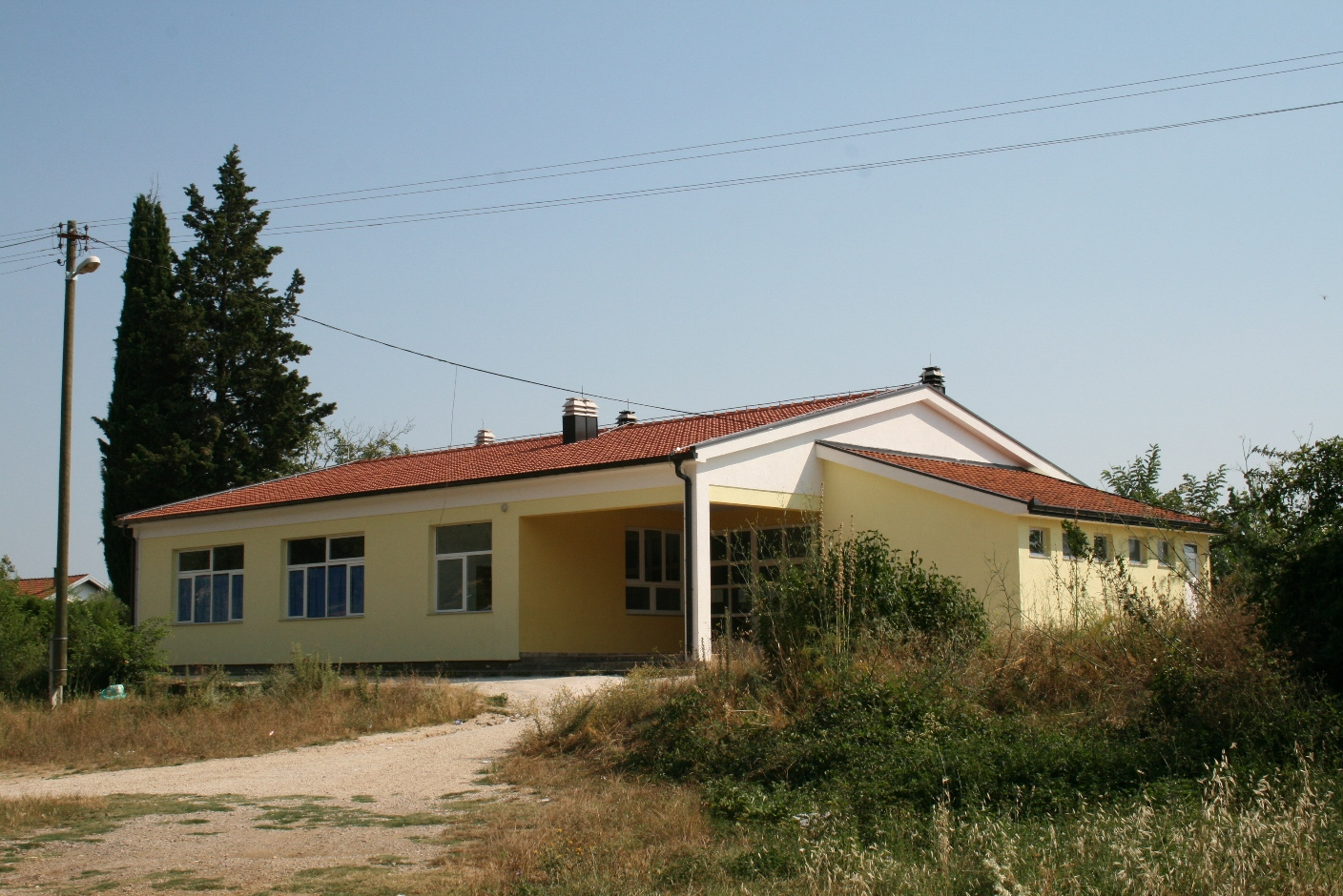 One-room school in Radišići, Ljubuški, Bosnia and Herzegovina